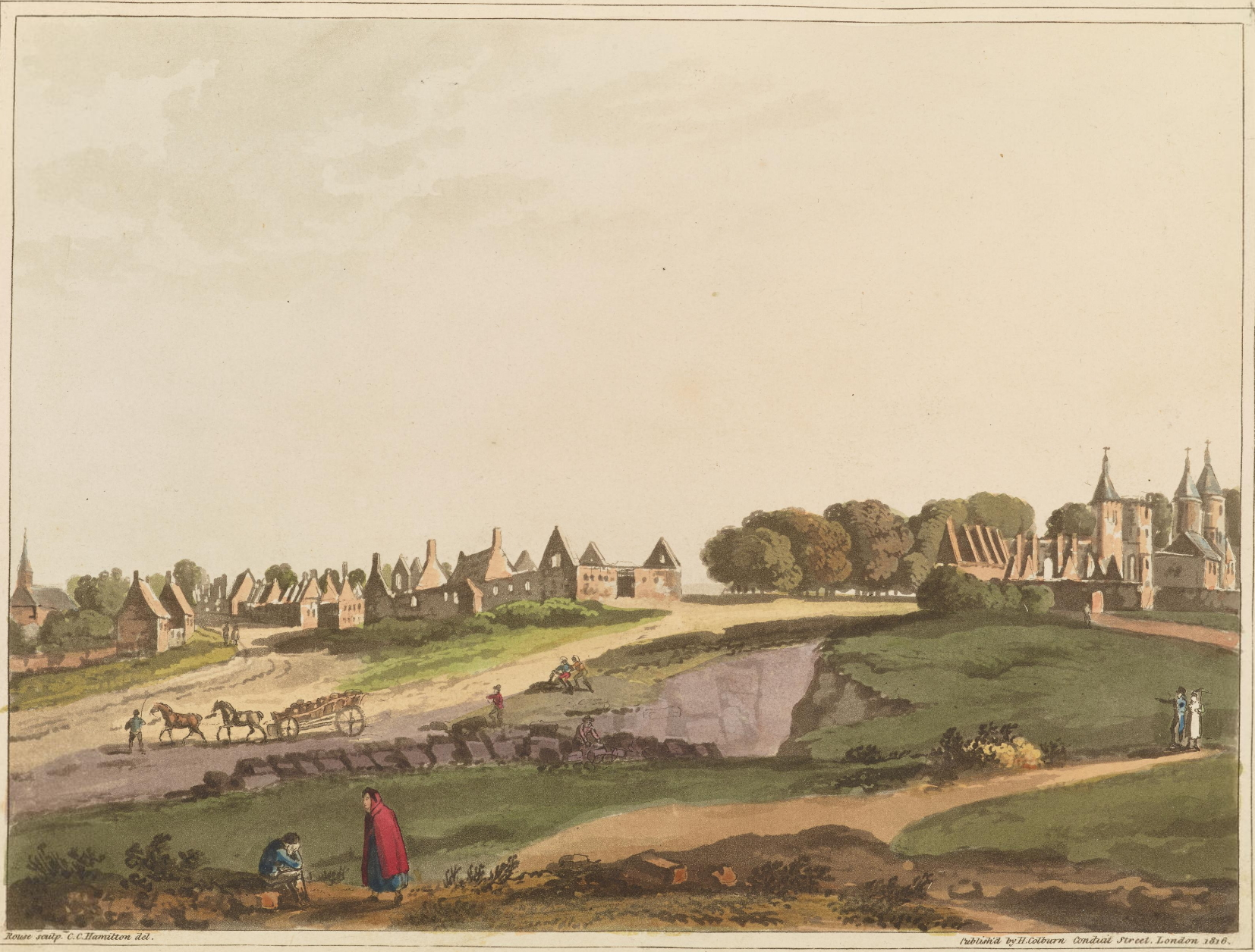 "The ruins of the village of Ligny". Engraver James Rouse, artist C. C. Hamilton